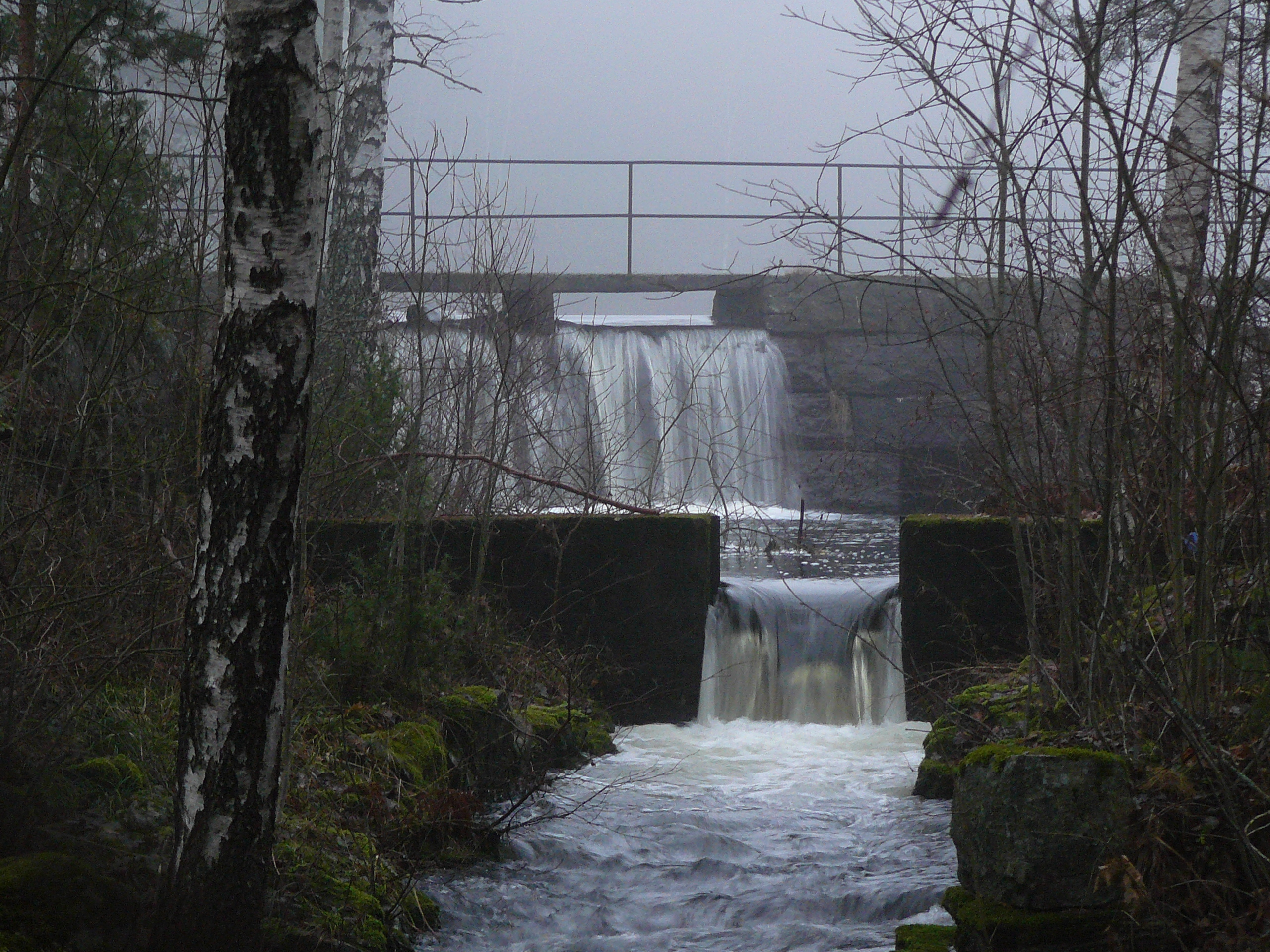 The dam at Nøklevann in Østmarka, Oslo. It's placed by Rustadsaga, at the south-west end of the lake.